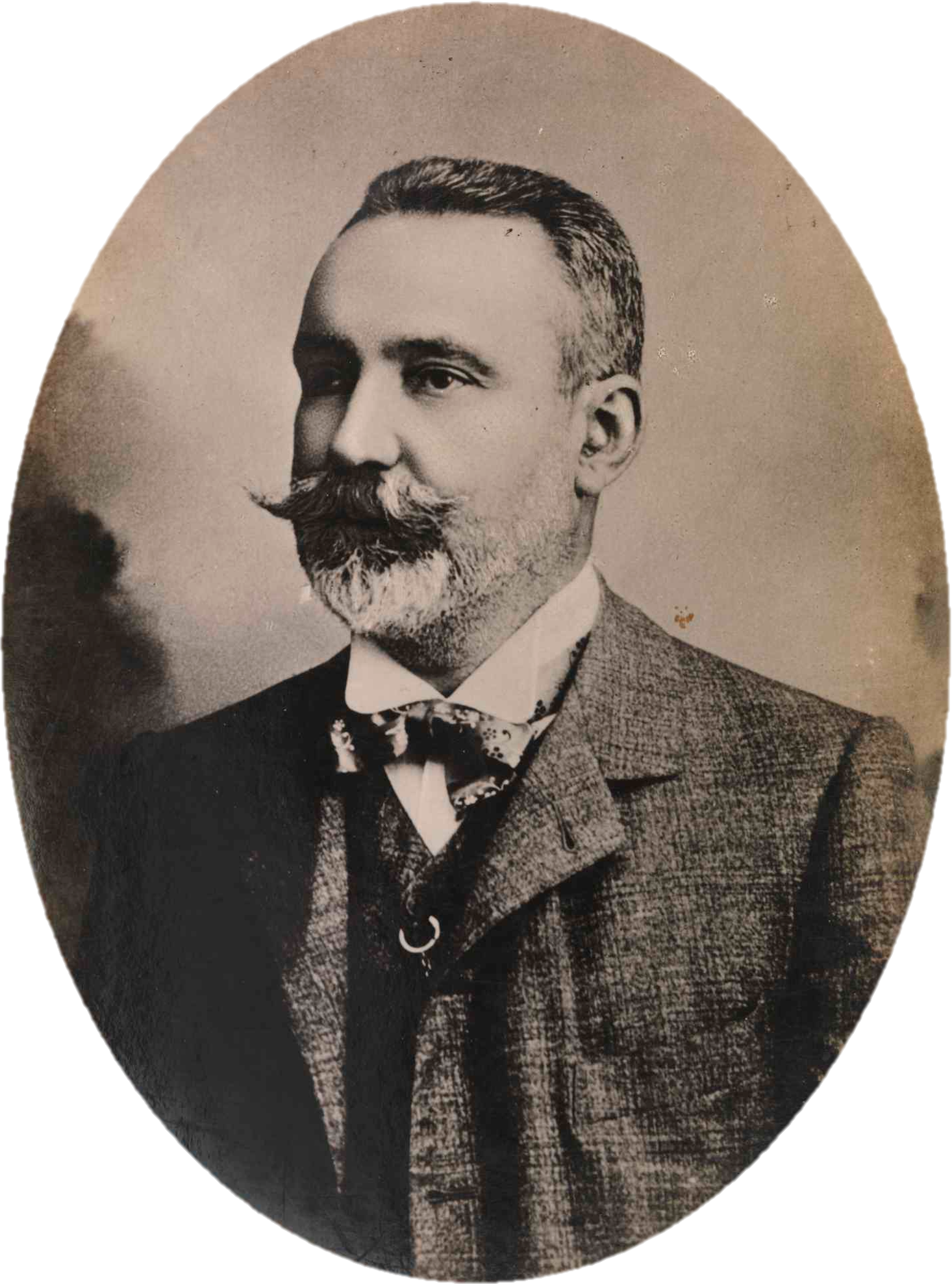 Celestino de Almeida (1864-1922), Portuguese physician and politician.